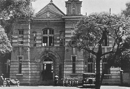 Ryoyo(Liaoyang) Police Station (Japanese police)